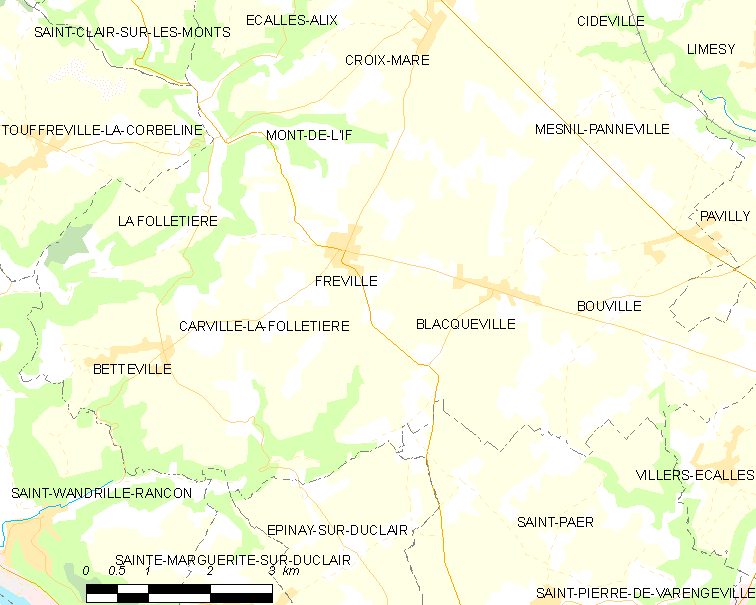 Map of French municipality Blacqueville